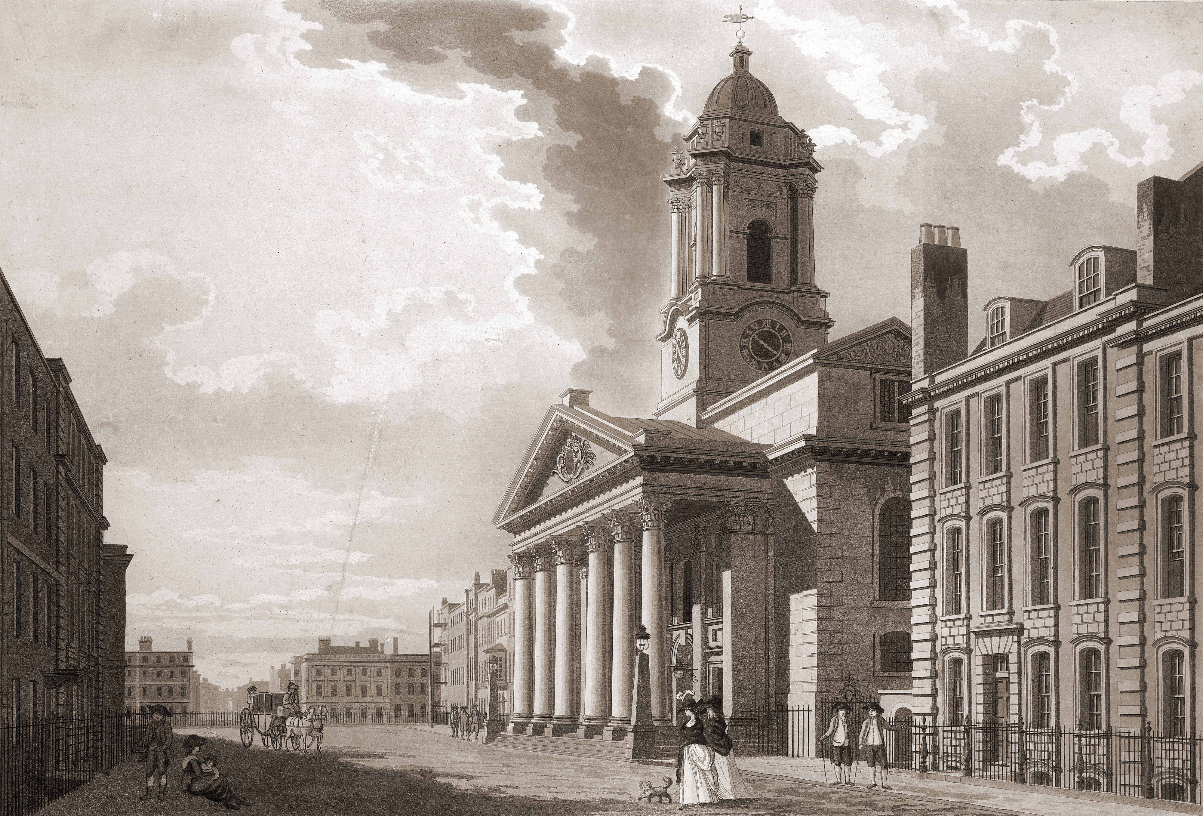 "St George's Hanover Square," aquatint, by T. Malton. Dated 1787. Courtesy of the British Library, London.